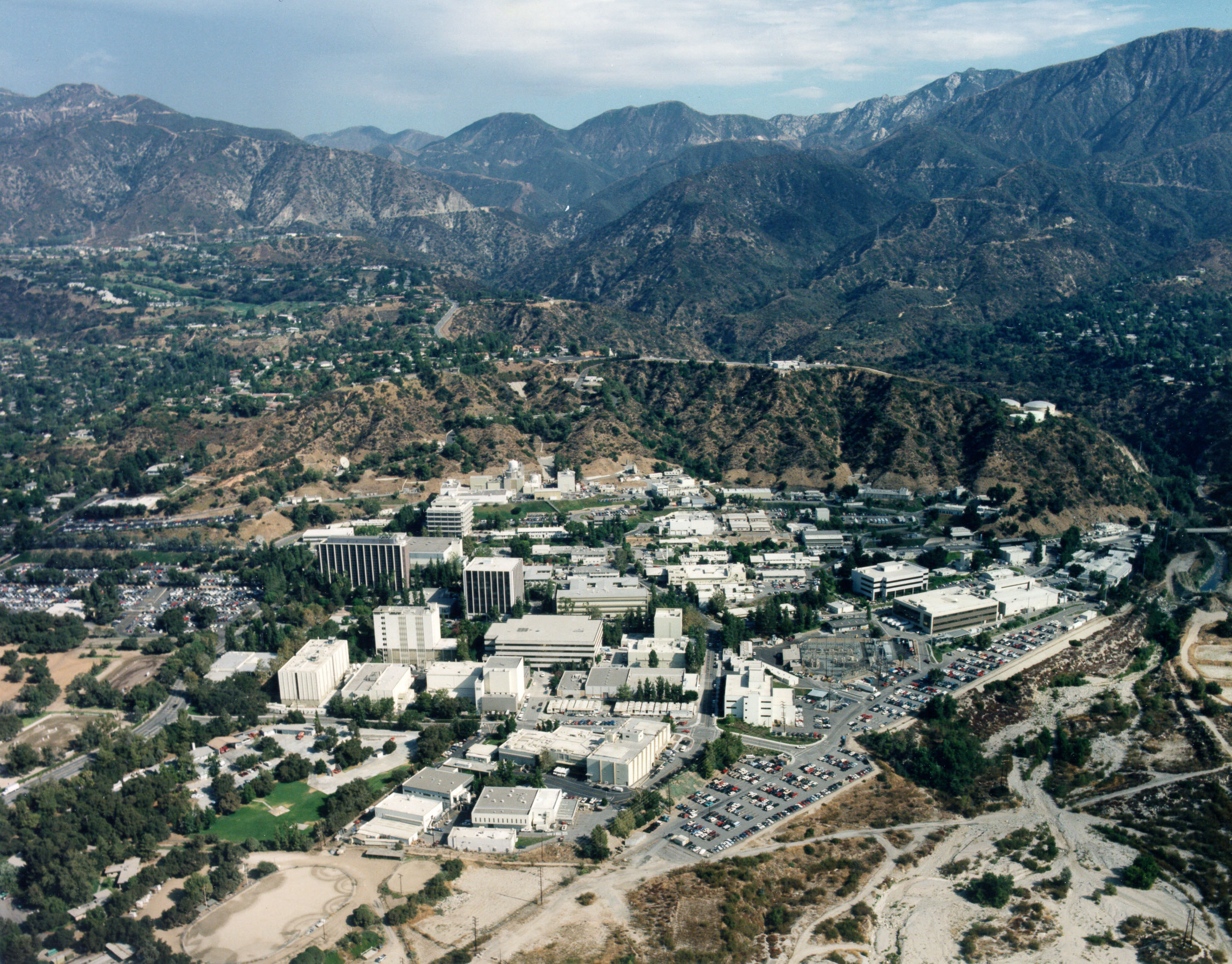 The Jet Propulsion Laboratory in the upper Arroyo Seco and San Gabriel Mountains foothills, of Pasadena and Altadena, Southern California.